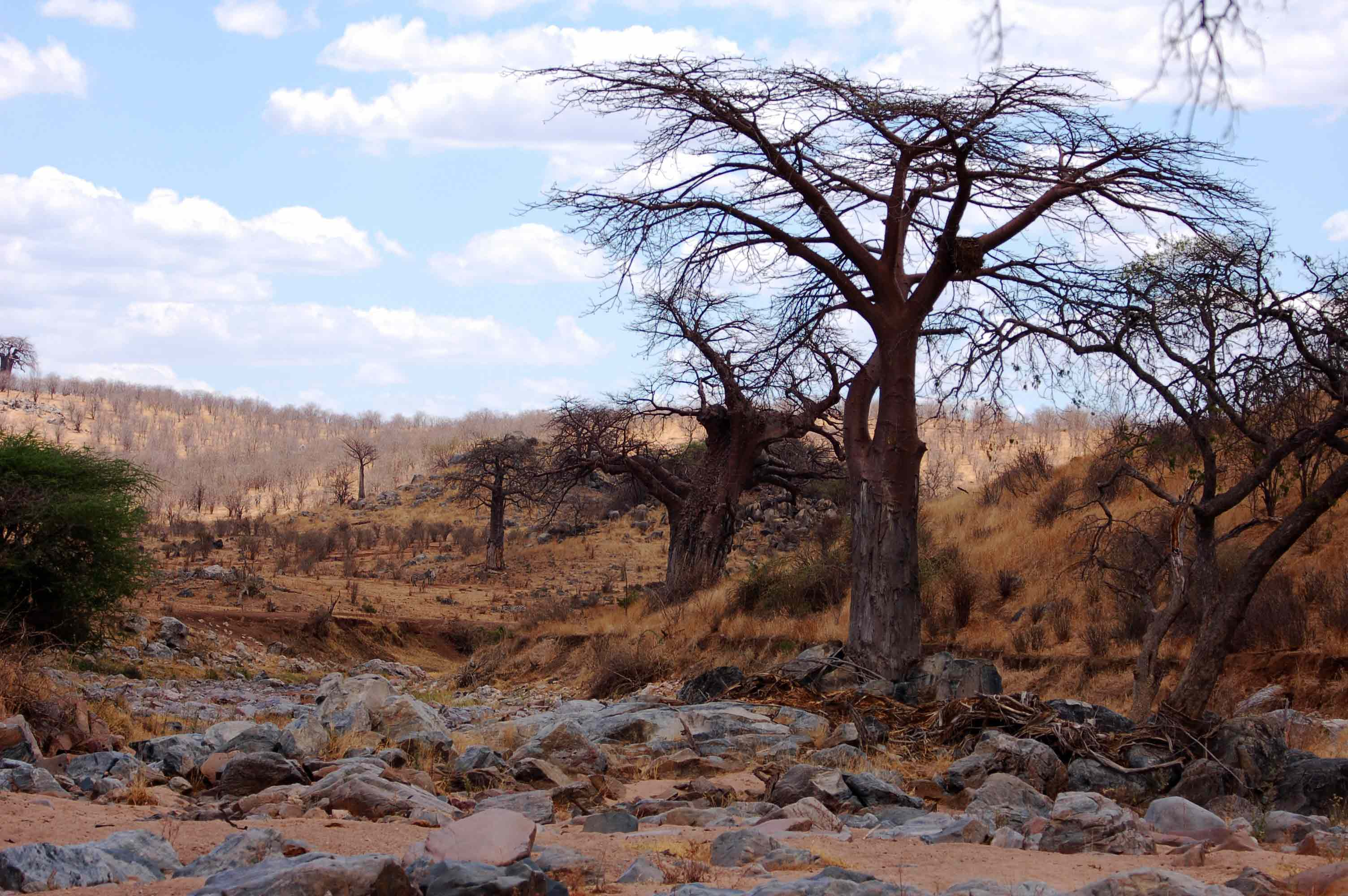 Dry Ruaha River, Ruaha National Park, Tanzania.